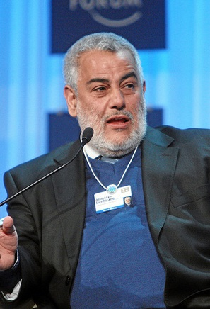 author : Davos World Economic Forum